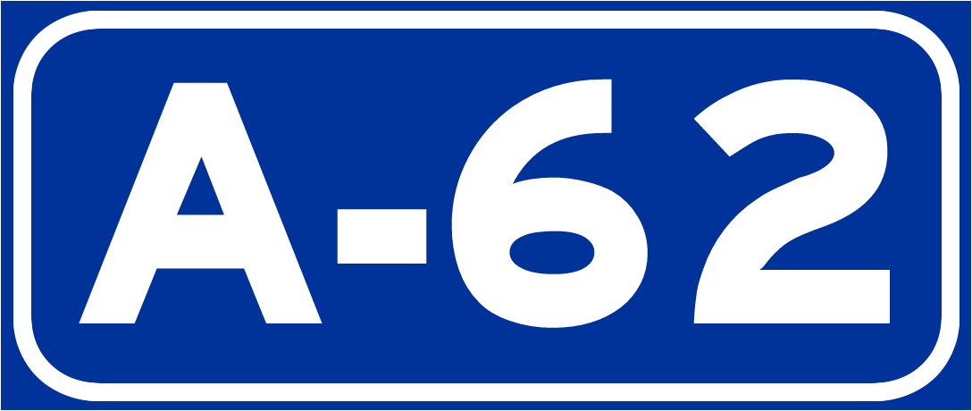 Diagram of motorway sign of Spain